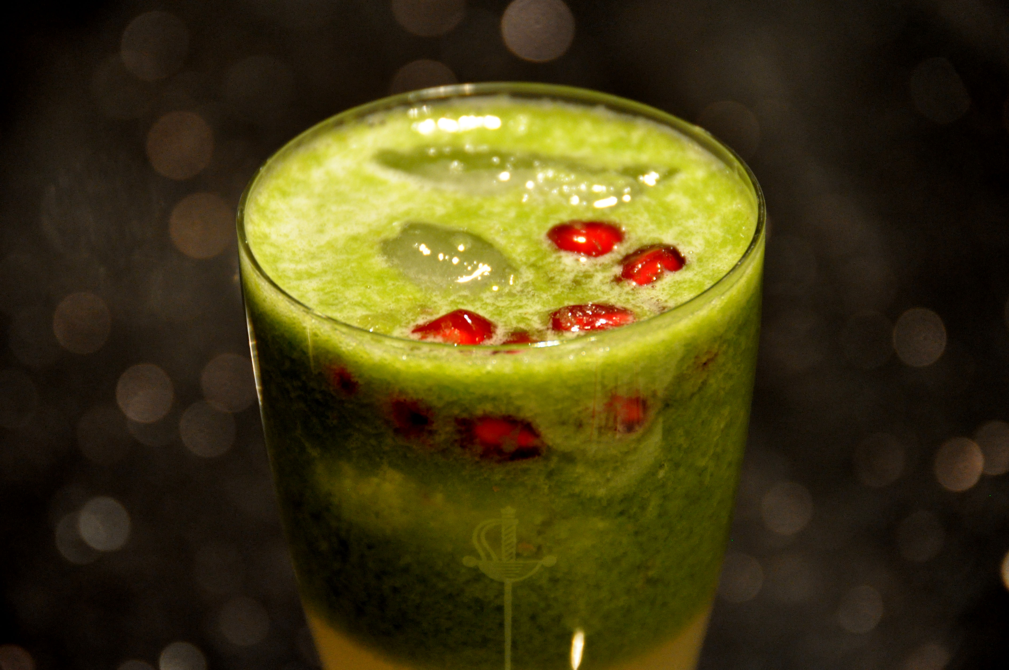 Juice of kiwi and cucumber with pomegranate kernels